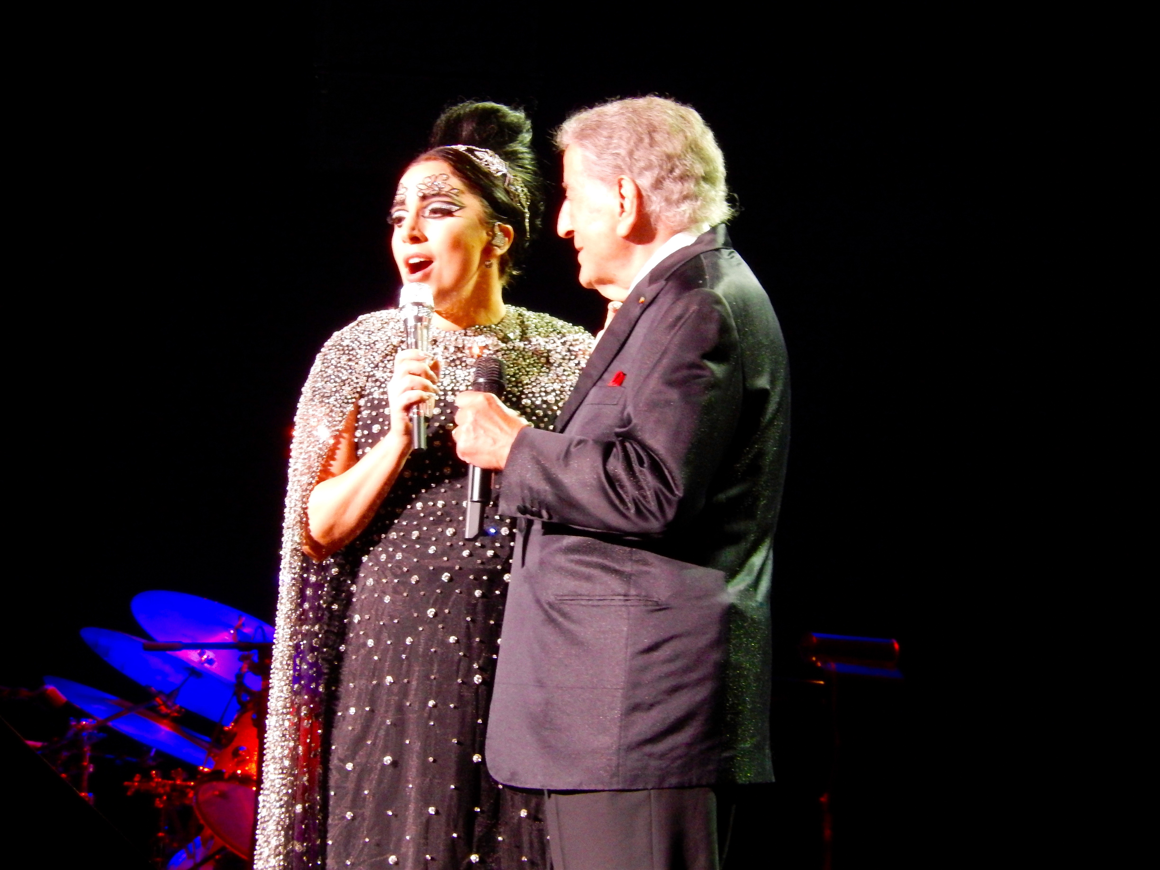 Cheek to Cheek Concert. The Axis. Planet Hollywood. Las Vegas. April 2015. Gaga and Bennett performing at Los Angeles for the Cheek to Cheek Tour